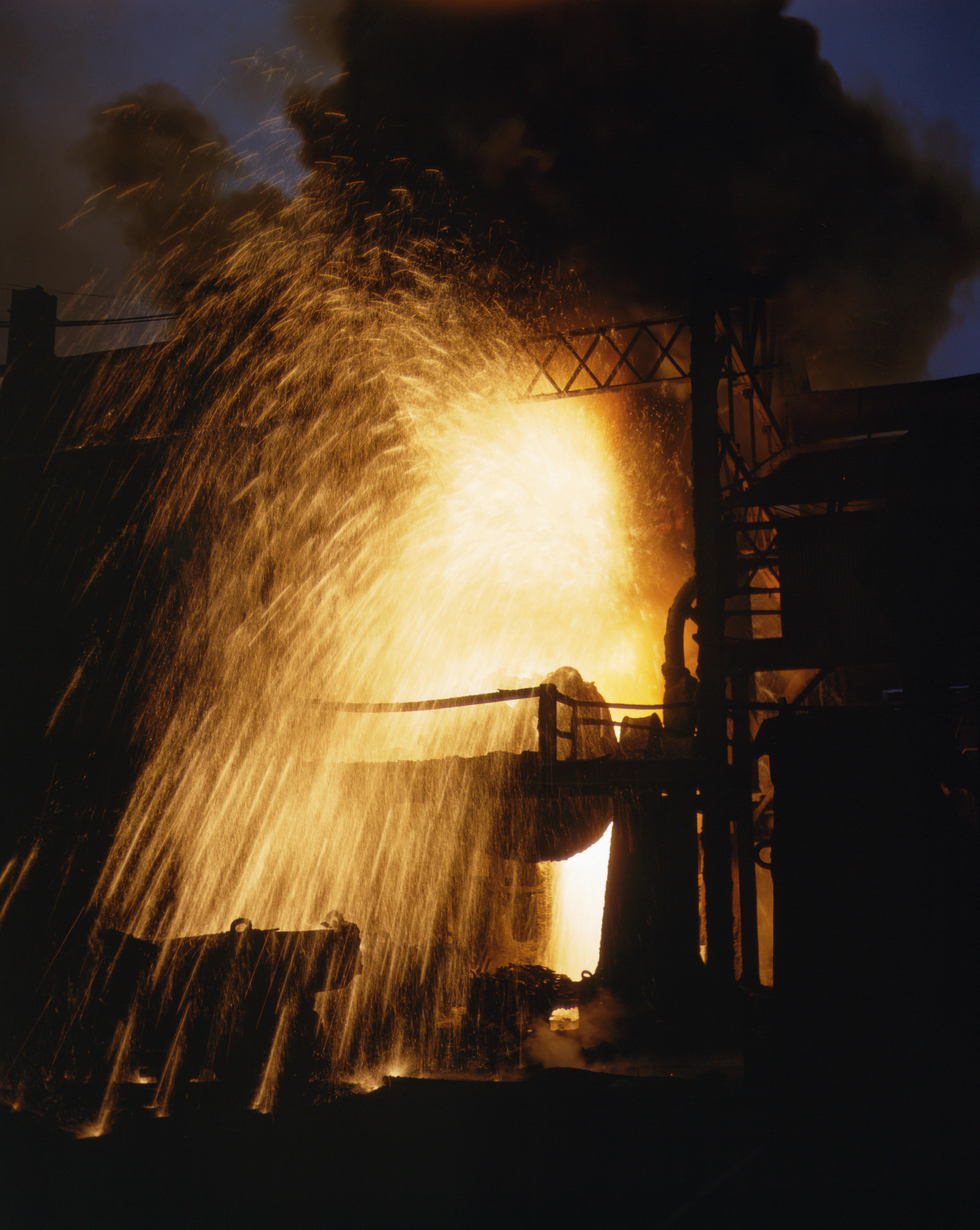 Bessemer converter (iron into steel), Allegheny Ludlum Steel Corp., Brackenridge, Pa.